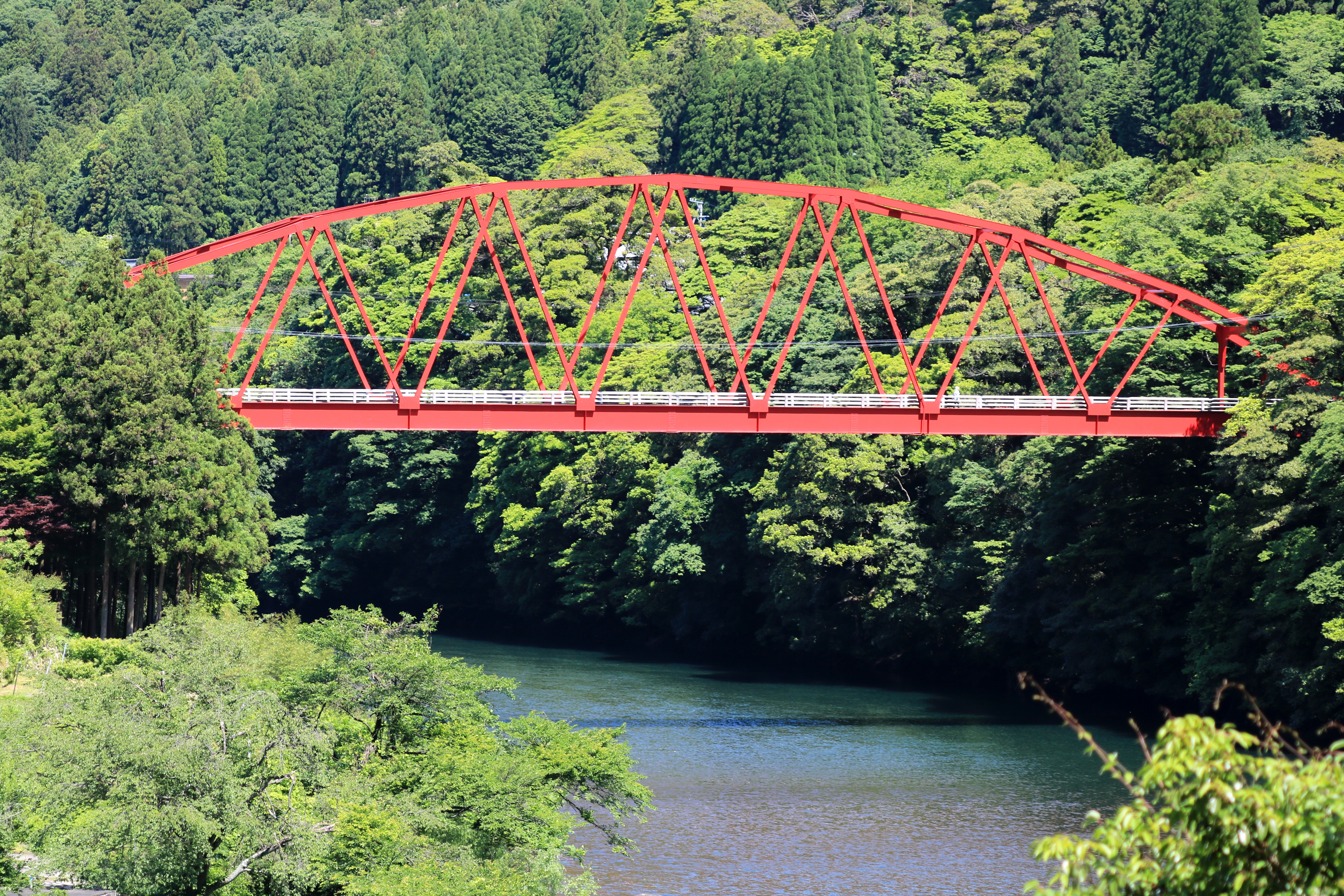 Ibikyo Bridge (Ibikyō-Ōhashi) of Gifu Prefectural Road Route 40 (Santō-Motosu Line) in Otohara, Ibigawa, Gifu Prefecture, Japan.